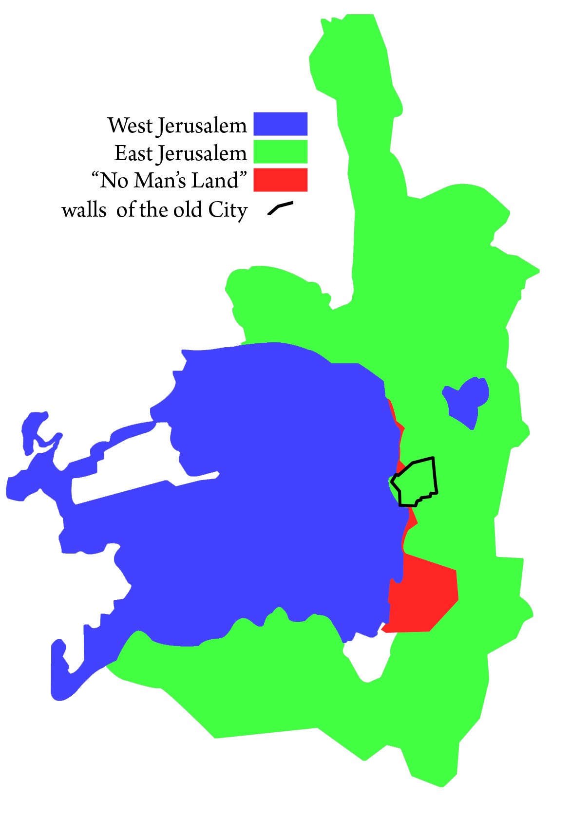 Map of Jerusalem